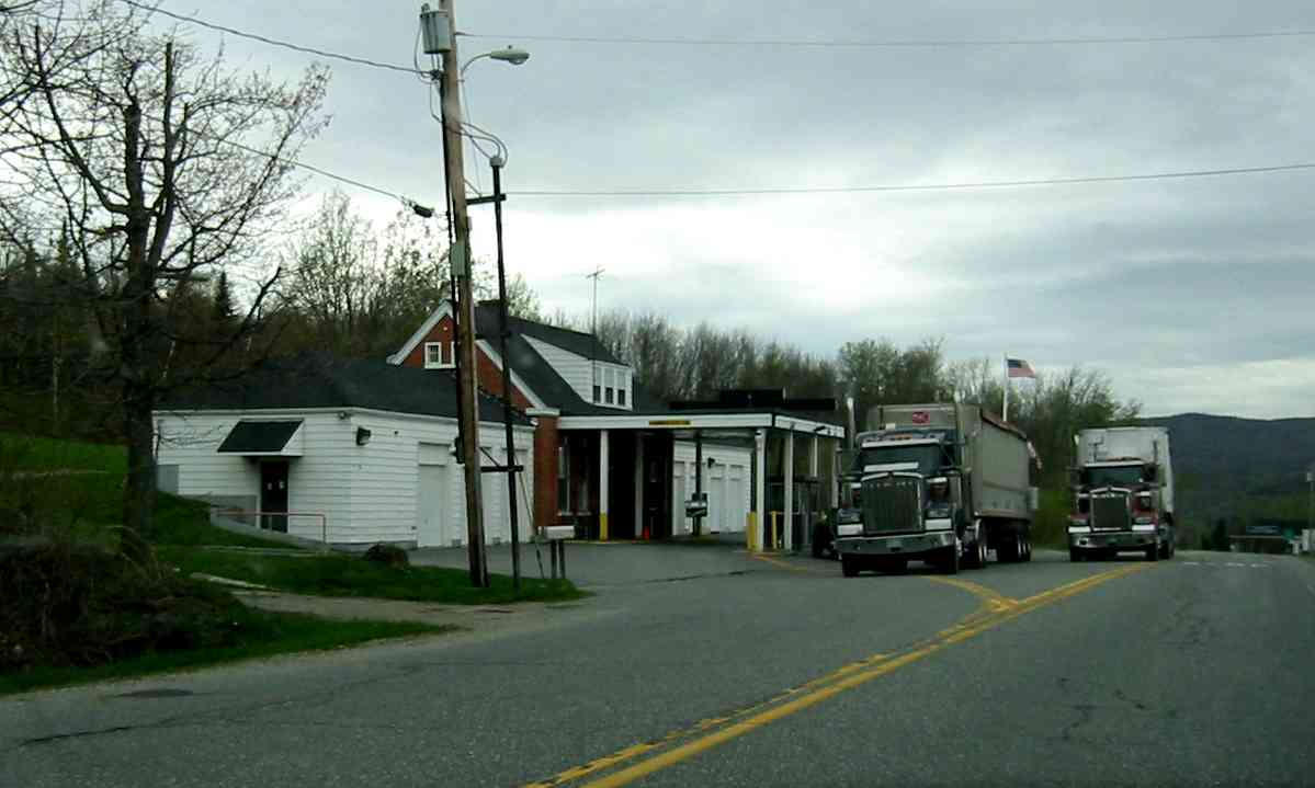 US Border Inspection station at North Troy, Vermont, as seen in 2002. The US built a new border station in 2009